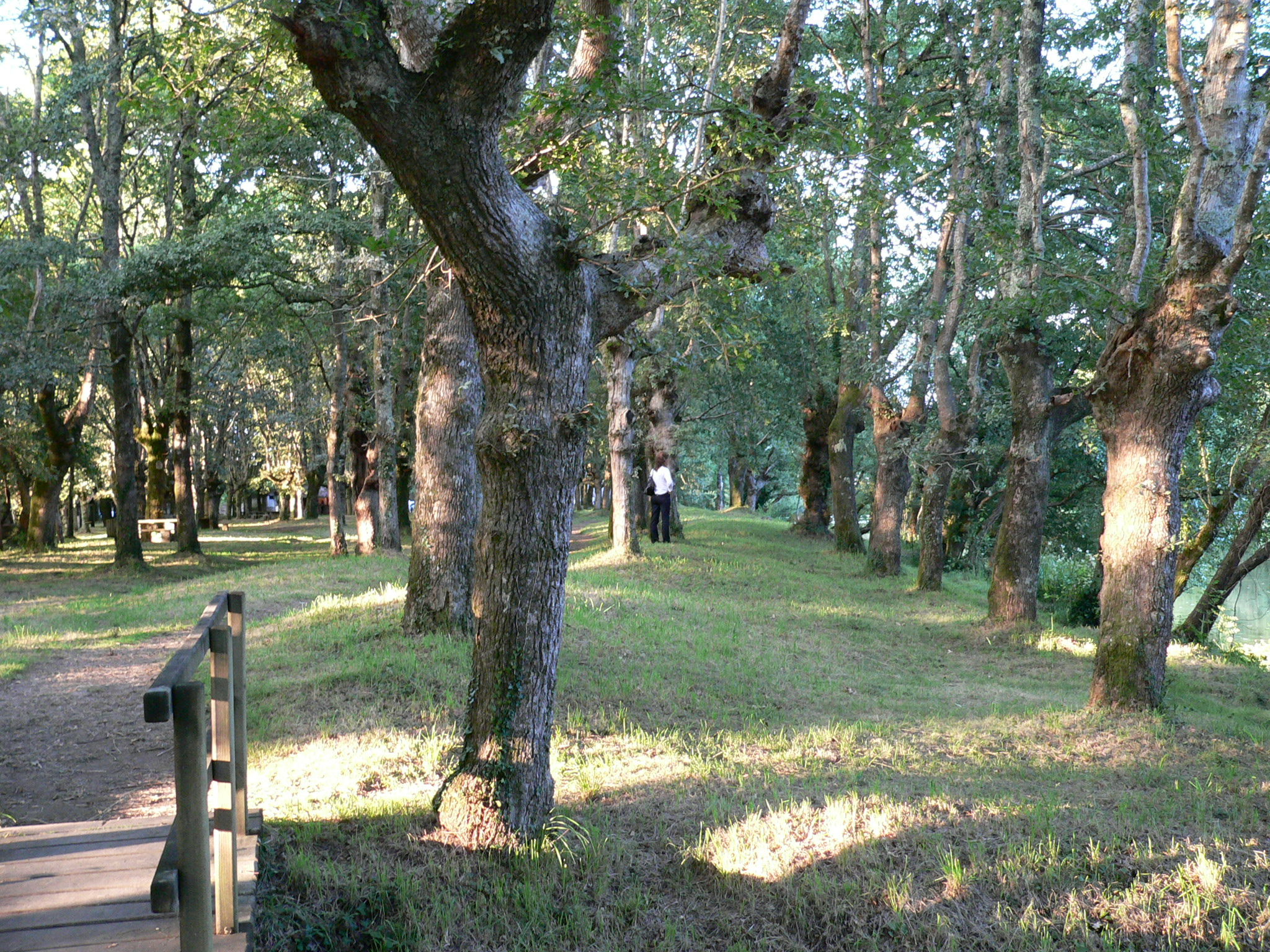 Oak forest in Chaián, Trazo, A Coruña, Galicia, Spain